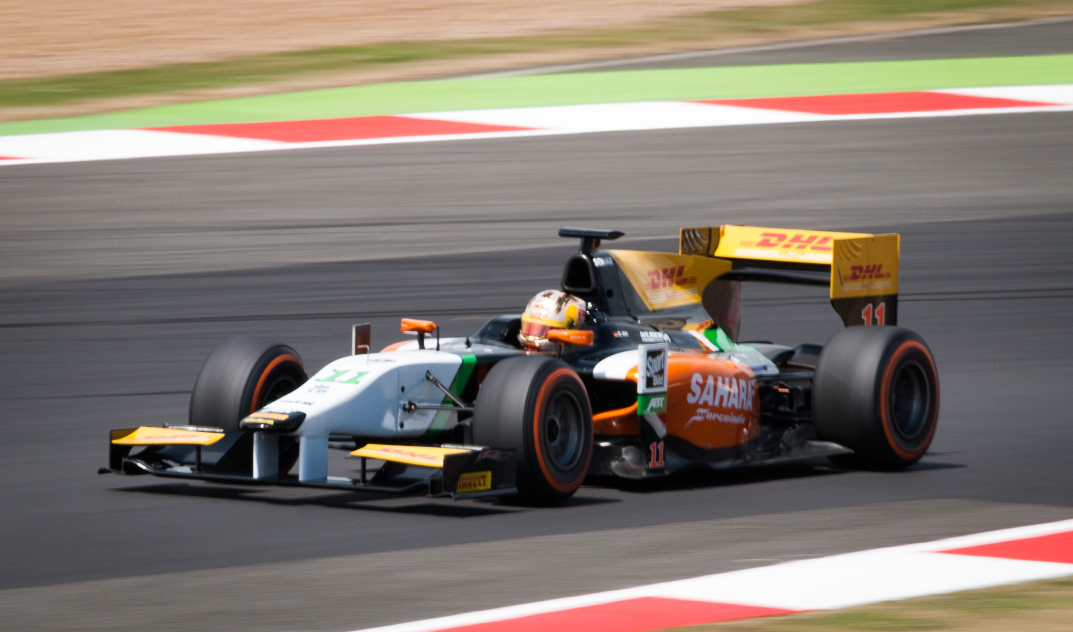 Daniel Abt driving for Hilmer Motorsport at Silverstone. Round 5 of the 2014 GP2 Series Championship.